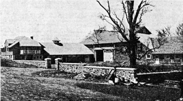 Barn and stables at Watson Dickerman's Hillandale Farm in New Rochelle, New York; during construction in 1906.